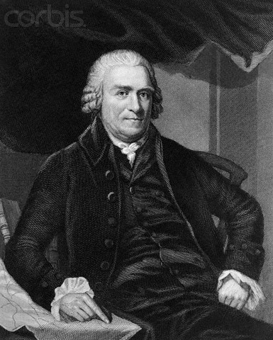 Portrait of Samuel Adams, painted by Major John Johnston in 1795 while Adams was Governor of Massachusetts. The original was destroyed by fire within a few years; this copy, a folio mezzotint, was engraved in 1797 by someone named Graham. (All information from The life and public services of Samuel Adams, by William Vincent Wells, volume 3, p. 334)